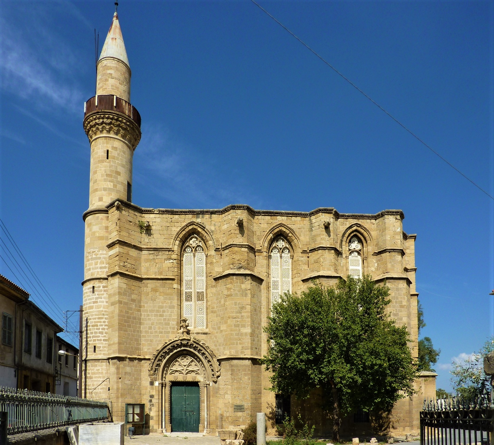 Haydarpasha Mosque (St. Catherine Church), Nicosia